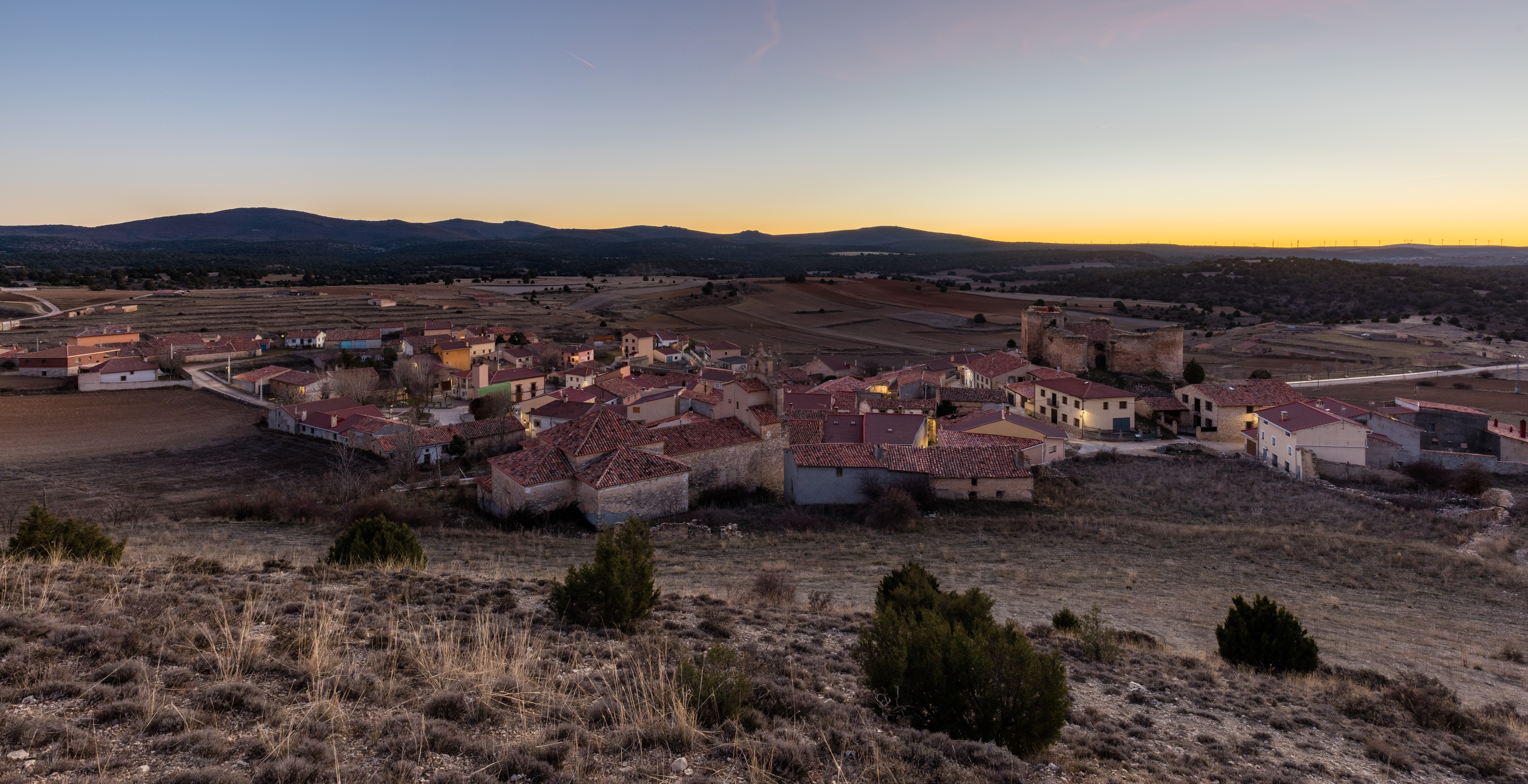 Establés, Guadalajara, Spain